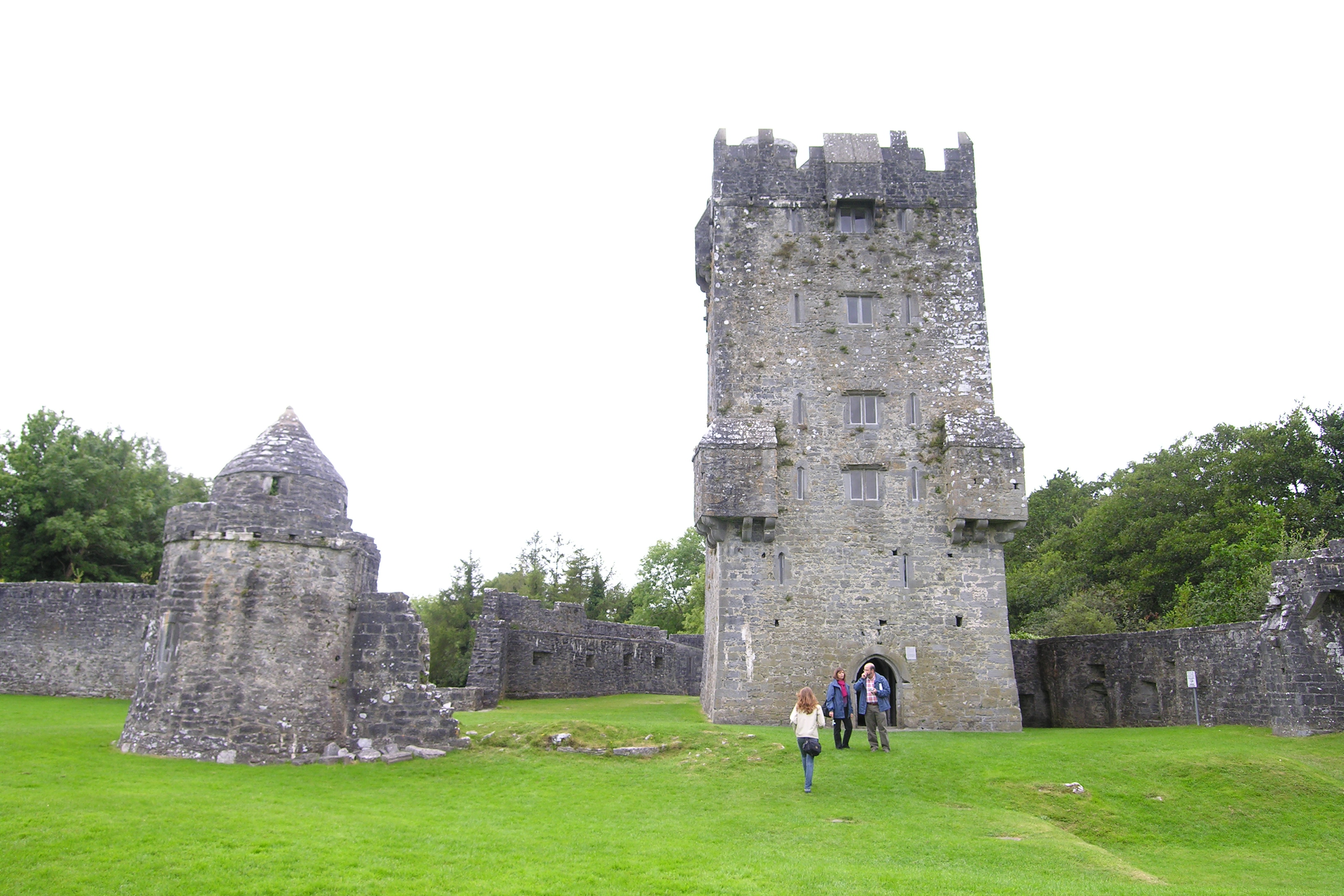 Aughnanure Castle main tower seen from inside yard. Picture taken by myself on a visit on September 4th, 2007.